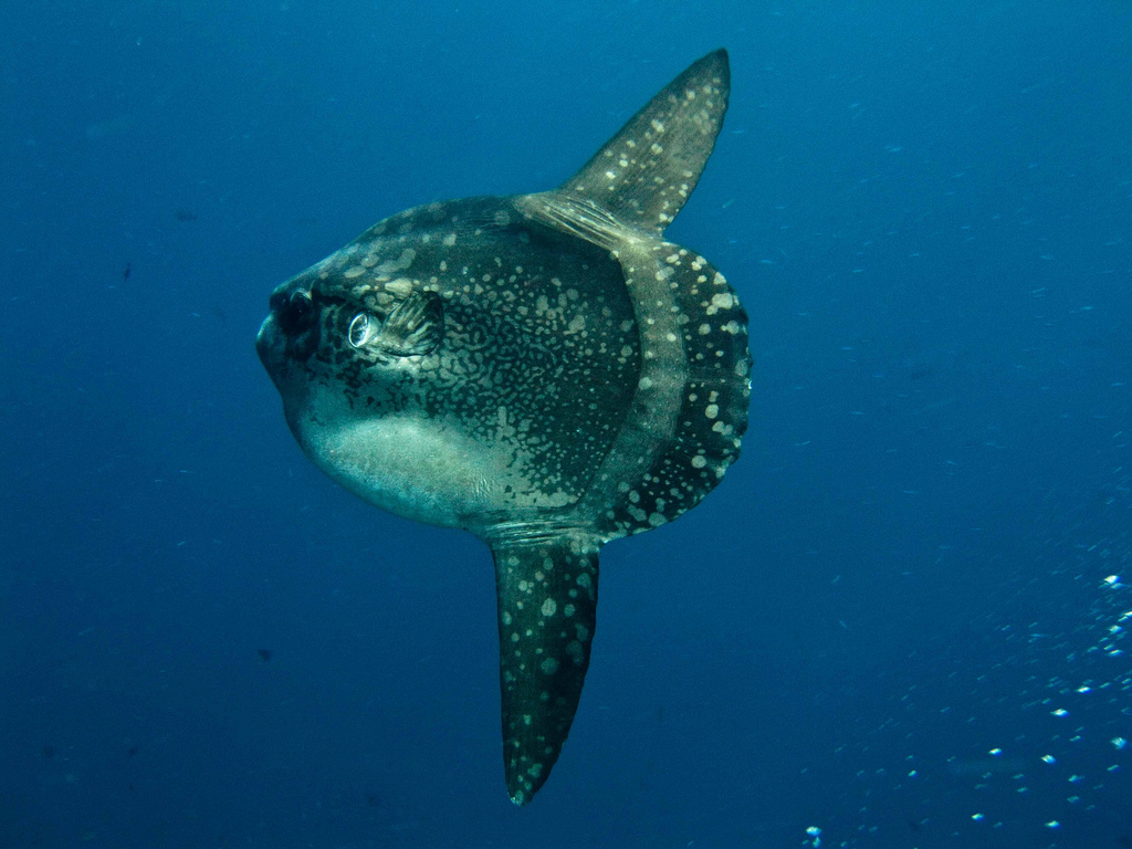 Scuba diving Bali Nusa Lembongan (mola mola), Ocean sunfish (mola-mola) off Nusa Lembongan, Bali Location: Bali.